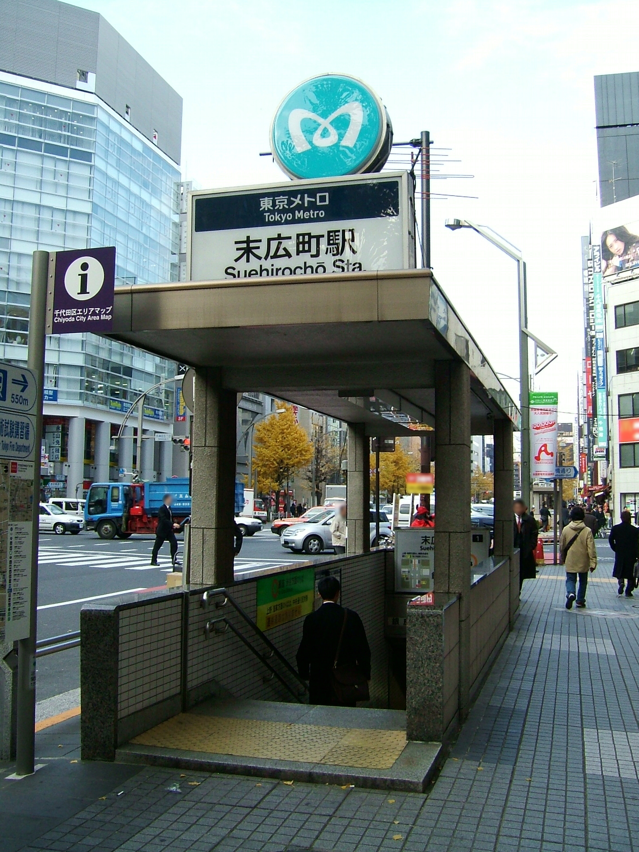 Suehirocho Station 1st entrance